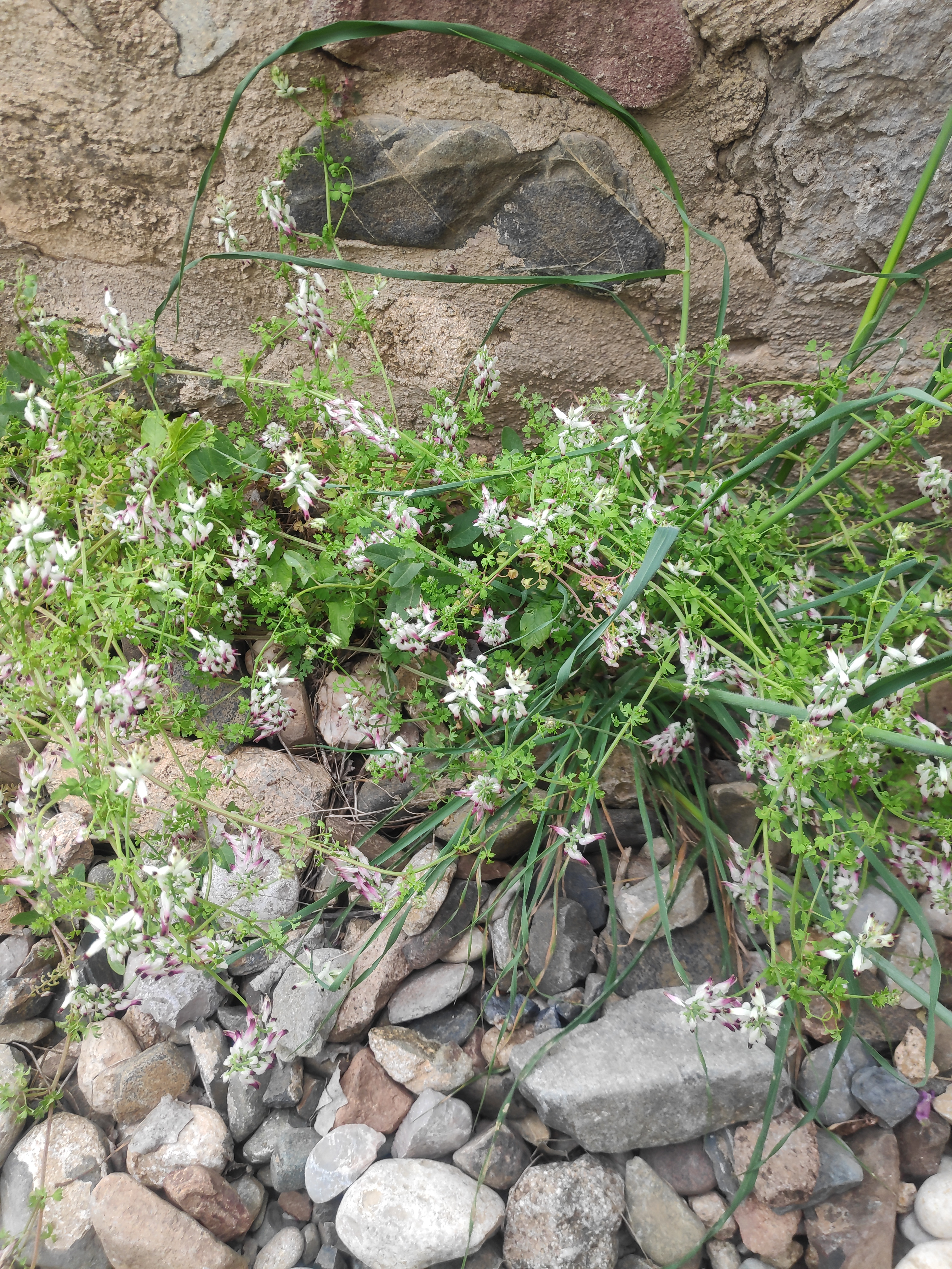 White ramping fumitory